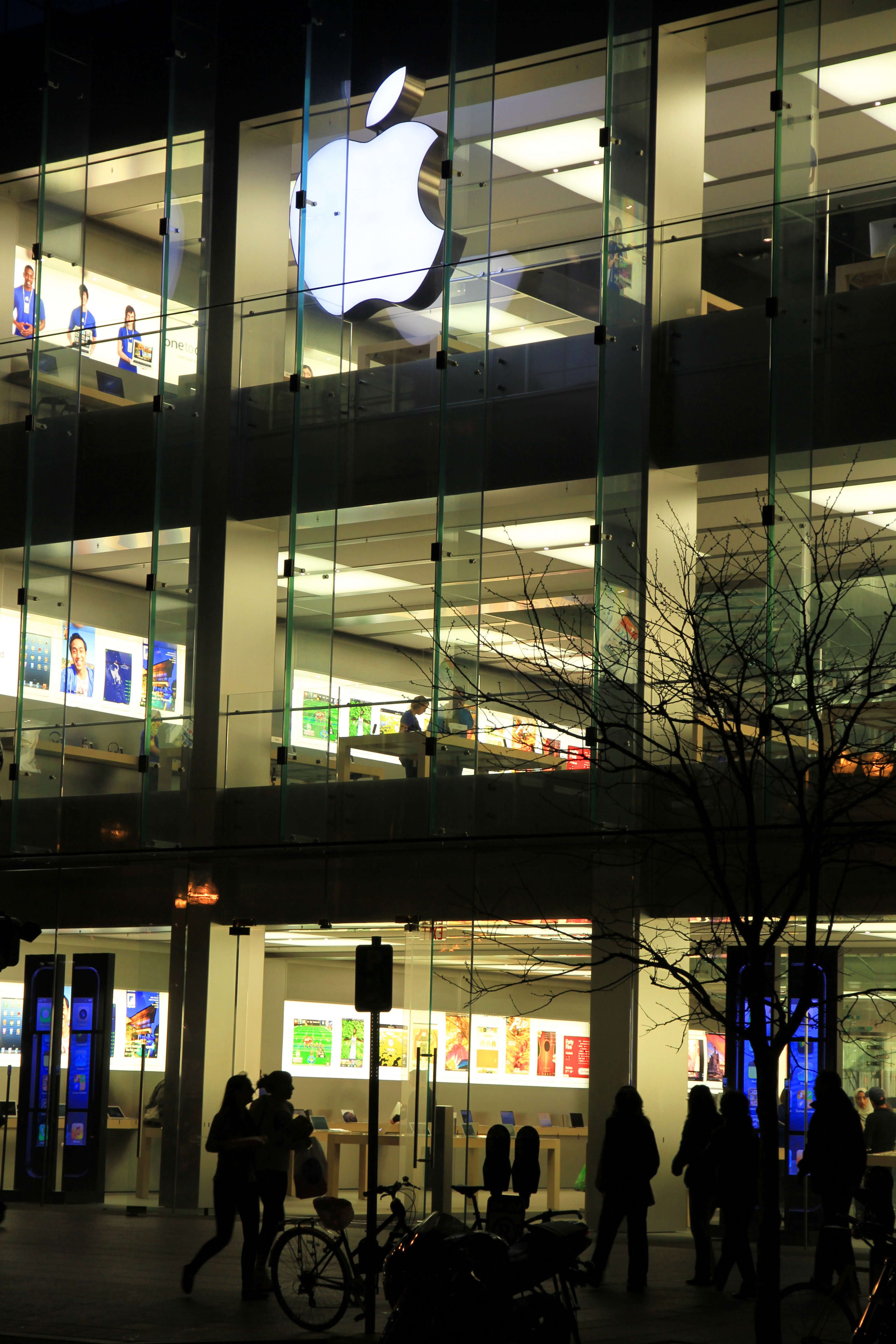 Boston Apple Store